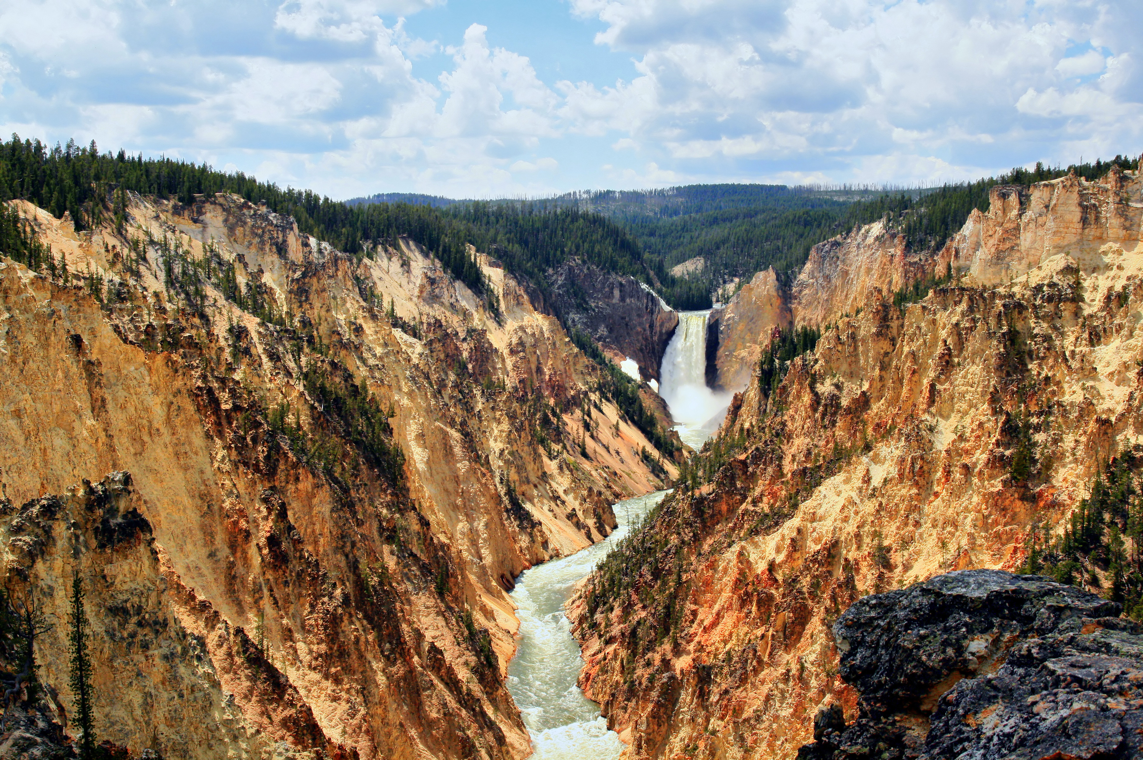 Grand Canyon and Yellowstone Fall at Yellowstone National Park. The canyon is up to 900 feet deep (275 m) and a half mile (0.8 km) in width. The canyon below the Lower Yellowstone Falls was at one time the site of a geyser basin that was the result of rhyolite lava flows, extensive faulting, and heat beneath the surface (related to the hot spot). The rhyolite in the canyon contains a variety of different iron compounds. Exposure to the elements caused the rocks to change colors. The rocks are, in effect, oxidizing; the canyon is rusting. The colors indicate the presence or absence of water in the individual iron compounds. Most of the yellows in the canyon are the result of iron present in the rock rather than sulfur.